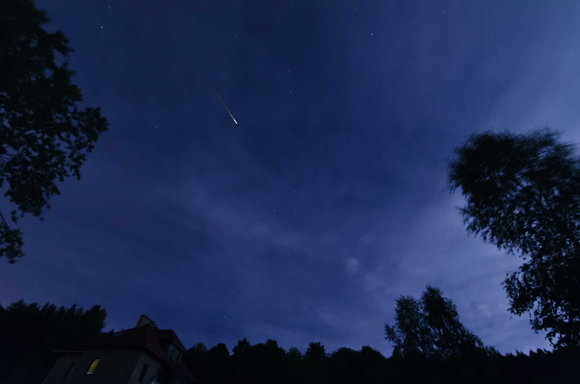 Meteor